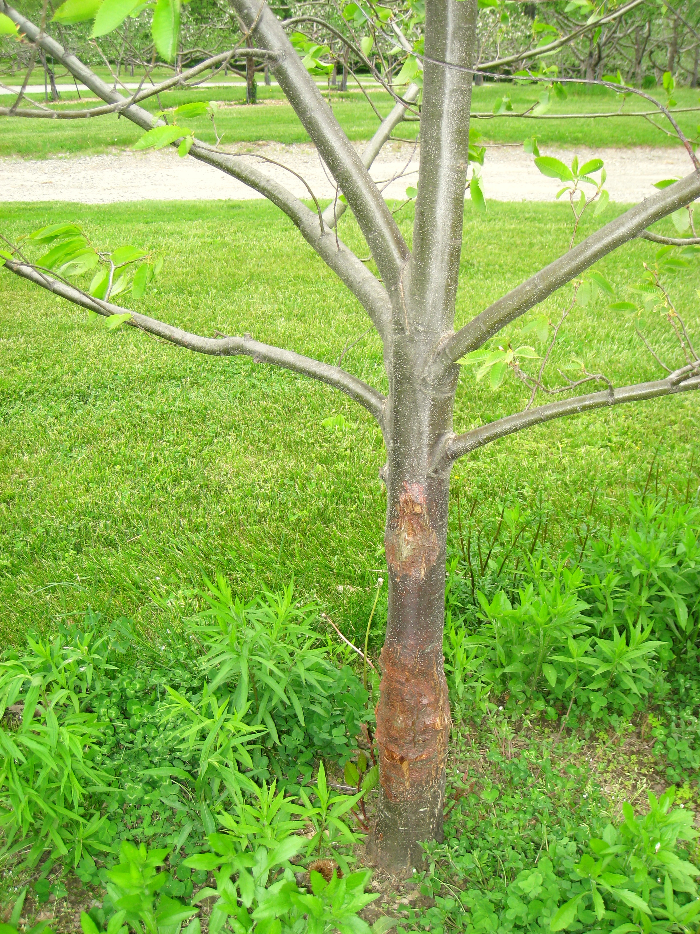 Chestnut blight. Experimental trials of resistant Castanea dentata by the American Chestnut Foundation at Tower Hill Botanic Garden, Boylston, Massachusetts, USA.